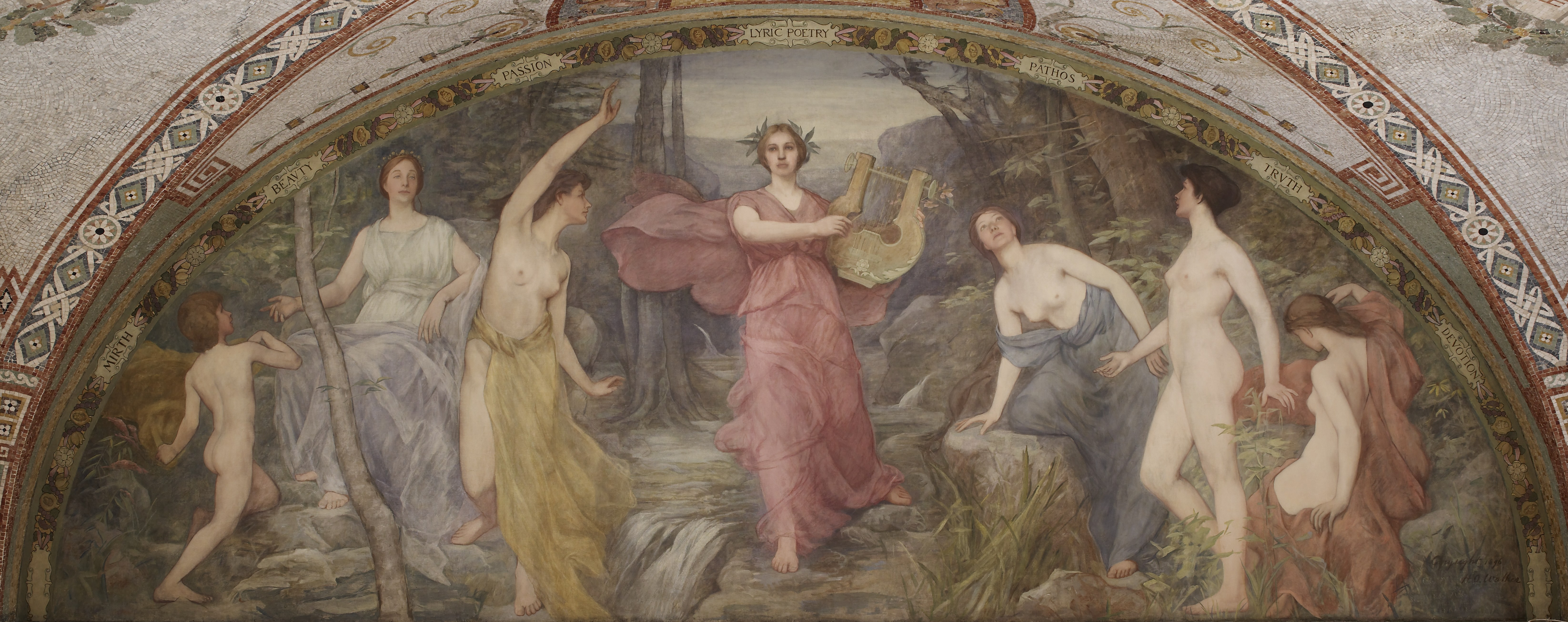 Henry O. Walker, Lyric Poetry (1896). Mural, South Corridor, Great Hall, Library of Congress Thomas Jefferson Building, Washington, D.C. Mural is signed "Copyright 1896 H.O. Walker".